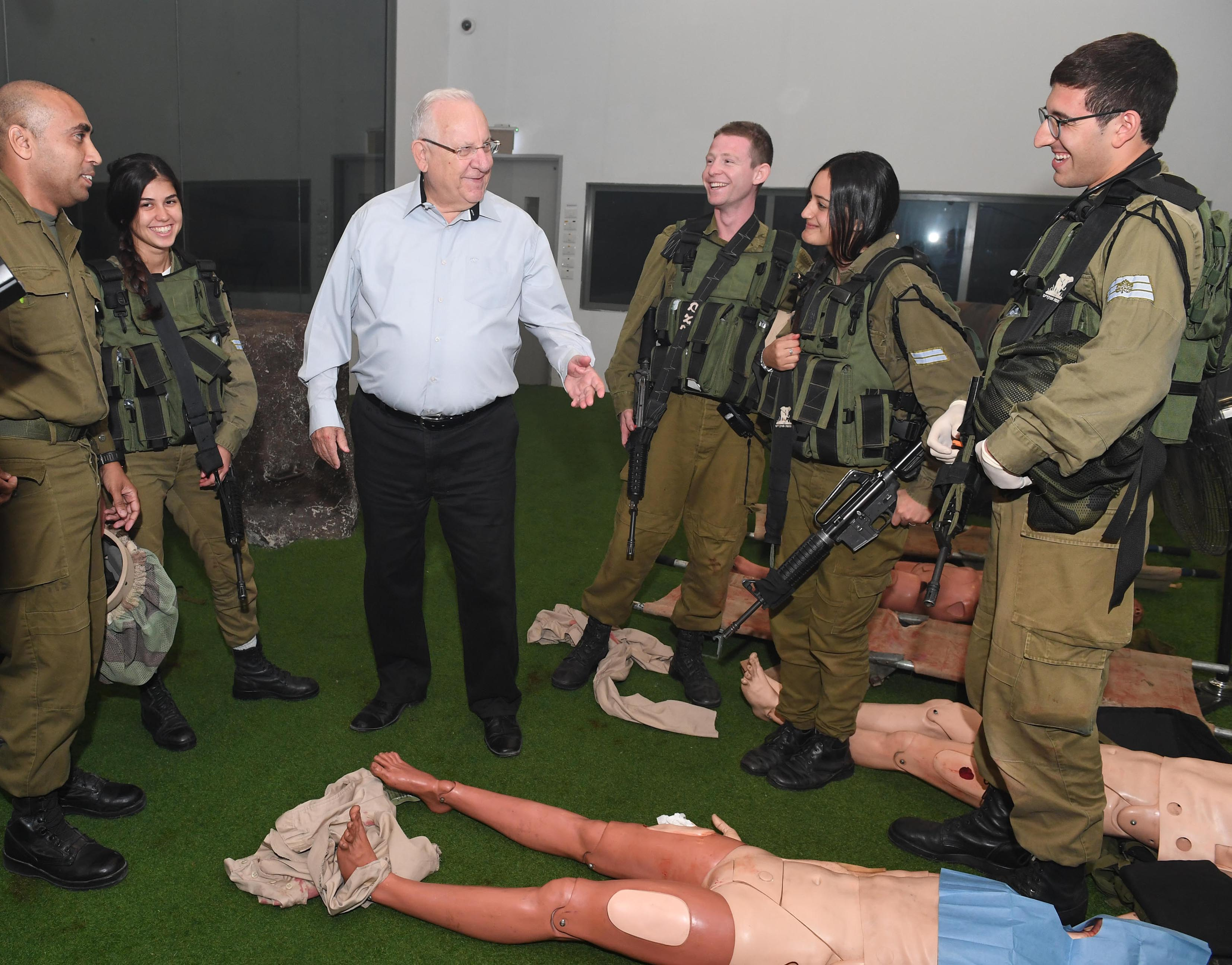 President of the State of Israel, Reuven Rivlin, at Camp Ariel Sharon in the Negev Tuesday, October 31, 2017. Photo Credit: Mark Neyman / GPO.